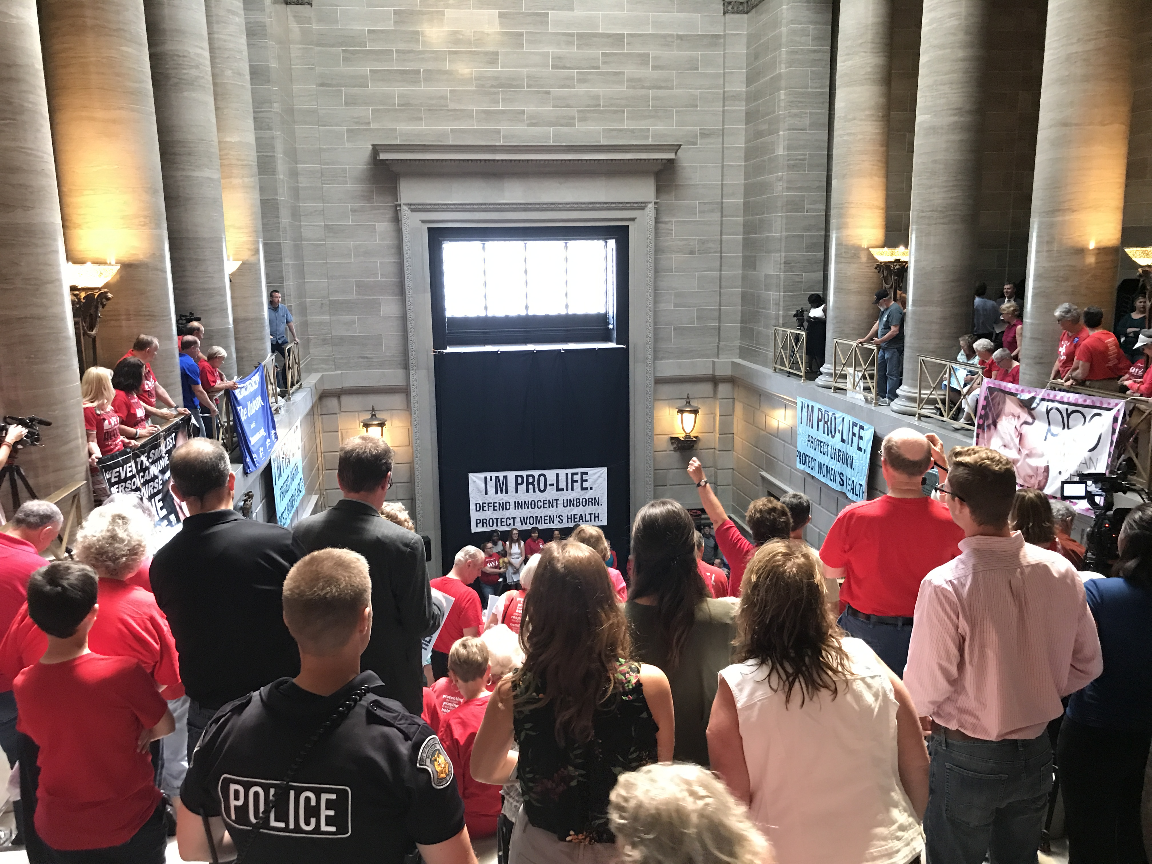 Nearly a thousand supporters of the pro-life movement attend Governor Greitens' rally during the pro-life special session in June 2017.